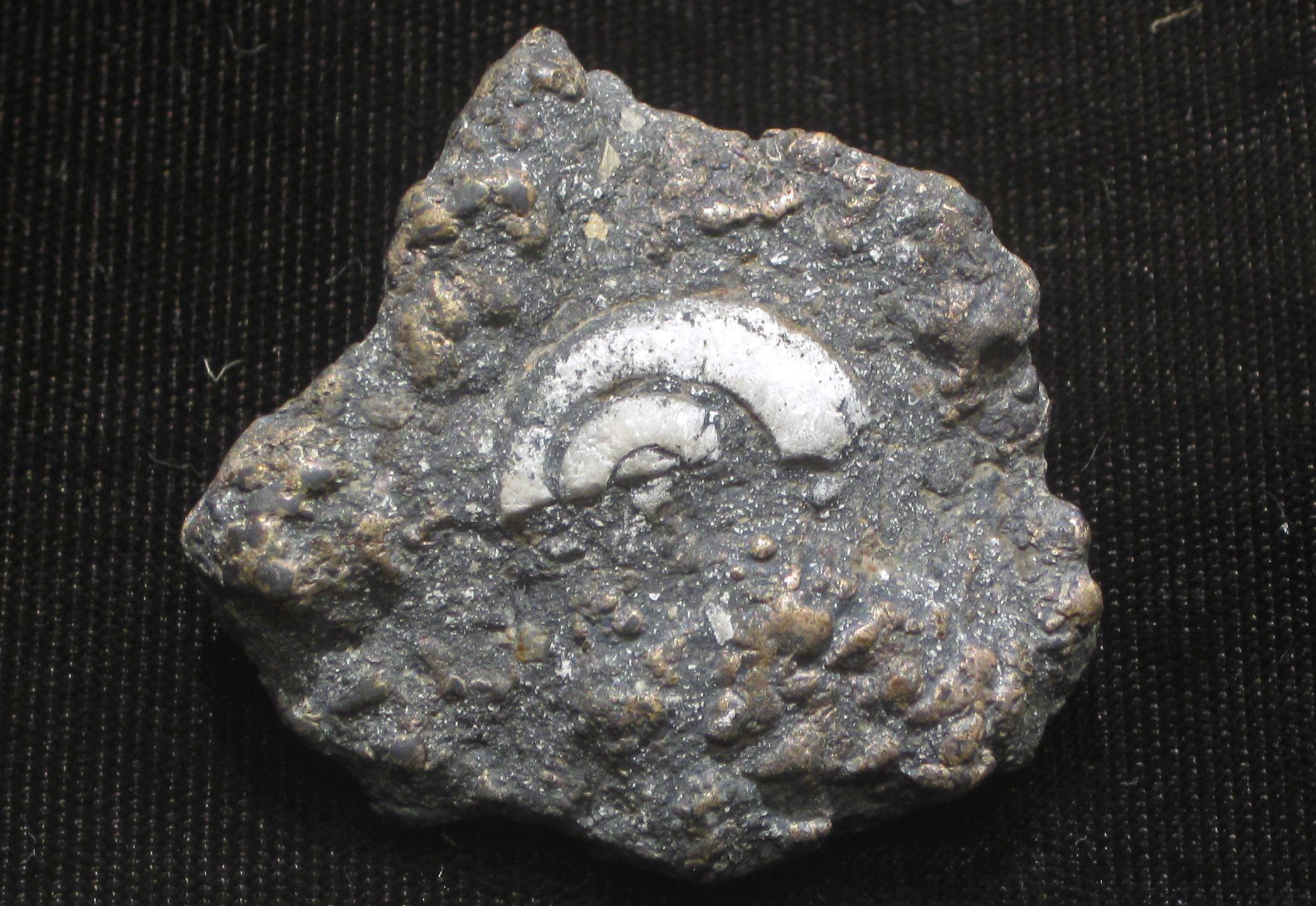 Silver-replaced fossiliferous limestone from Colorado, USA. (DMNH 138, Denver Museum of Nature & Science, Denver, Colorado, USA) This remarkable rock is fossiliferous limestone that has been replaced by native silver (Ag). The large, whitish fossil near the center is a gastropod (snail) - it appears to have been truncated by a fault. This specimen comes from a famous silver mining area in Colorado - the Aspen Mining District. Barite, various sulfides and sulfosalt minerals, plus native silver occur principally in breccia zones in the Aspen District. The breccia zones occur within and at the top of the Leadville Limestone, a Lower Mississippian unit that includes dolostone and limestone. Silver and sulfide mineralization in the area occurred during the Late Cretaceous and Paleocene, between approximately 70 and 55 million years ago. This mineralization accompanied the Laramide Orogeny, a mountain building event that formed the true Rocky Mountains of New Mexico, Colorado, Wyoming, and Montana. Locality: Smuggler Mine, Smuggler Mountain, Aspen Mining District, central Pitkin County, west-central Colorado, USA Example references on Smuggler Mine area geology: Bryant (1979) - Geology of the Aspen 15-minute quadrangle, Pitkin and Gunnison Counties, Colorado. United States Geological Survey Professional Paper 1073. 146 pp. Stegen et al. (1990) - The origin of the Ag-Pb-Zn-Ba deposits at Aspen, Colorado, based on geologic and geochemical studies of the Smuggler Orebody. Economic Geology Monograph 7: 266-300.